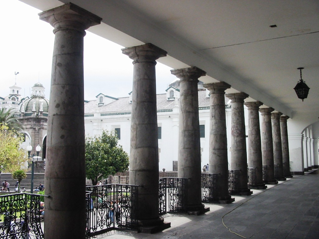 Exterior gallery of the Carondelet's Palace, in Quito